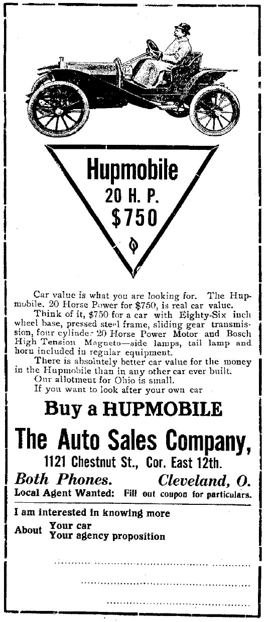 A 1909 Hupmobile Advertisement